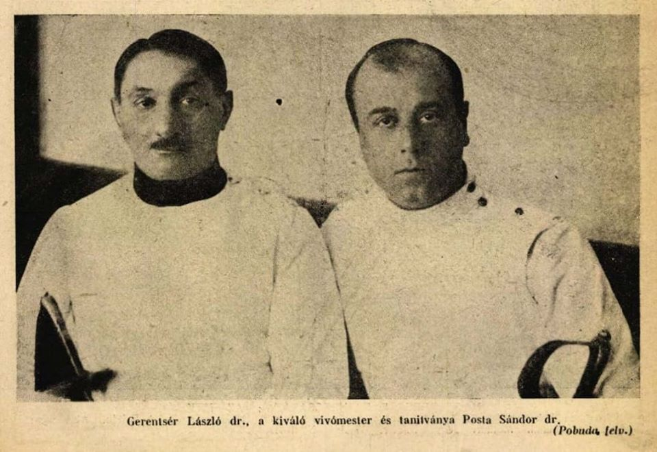 László Gerentsér (1873-1942) Hungarian fencing master and Sándor Pósta (1888-1952), Olympic champion